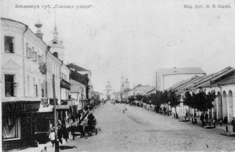 Vladimir. Ulitsa Bolshaya Moskovskaya (Big Moscow street). Ar. 1909. Wiev from the east on the Golden Gate tower. On the right - southern facade of the Trading Stalls.